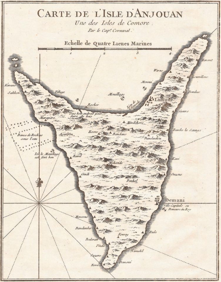 Map of the Island of Anjouan, one of the Islands of the Comoros from map by Jacque-Nicolas Bellin, featured in "Histoire Générale des Voyages" by Antoine François Prévost As reprinted in Joseph Smith, Captain Kidd Lore, and Treasure-Seeking in New York and New England during the Early Republic